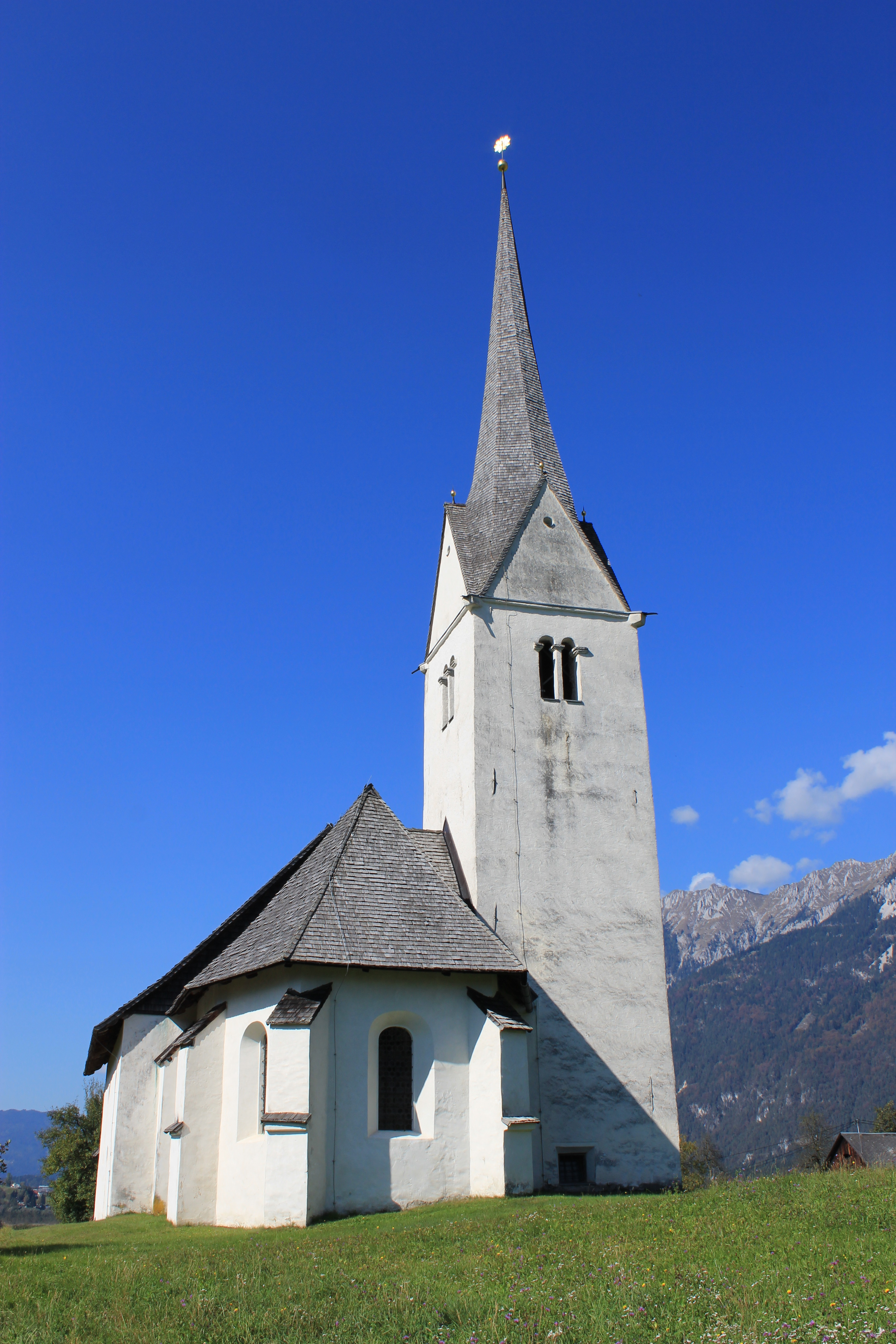 Church in Görtschach in the community of Hermagor